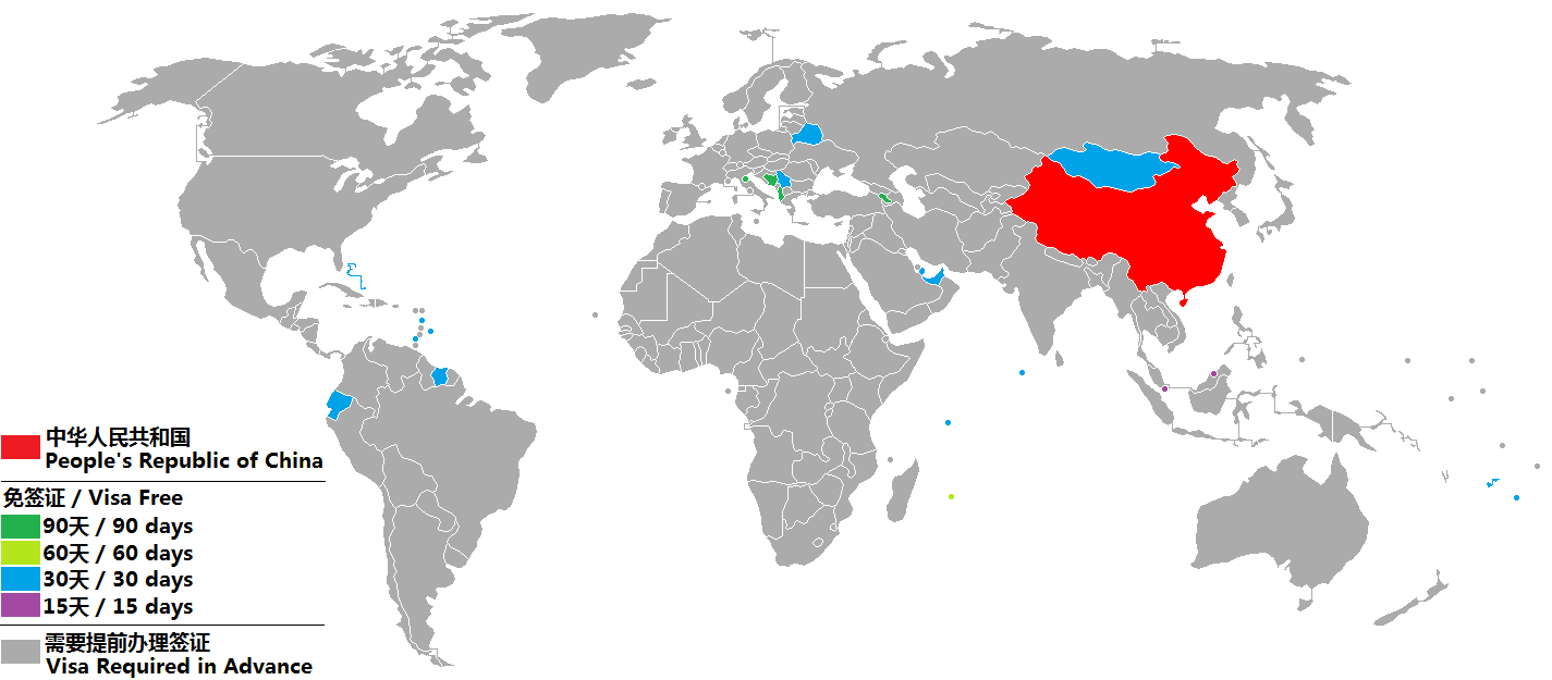 Visa policy of China - October 2013